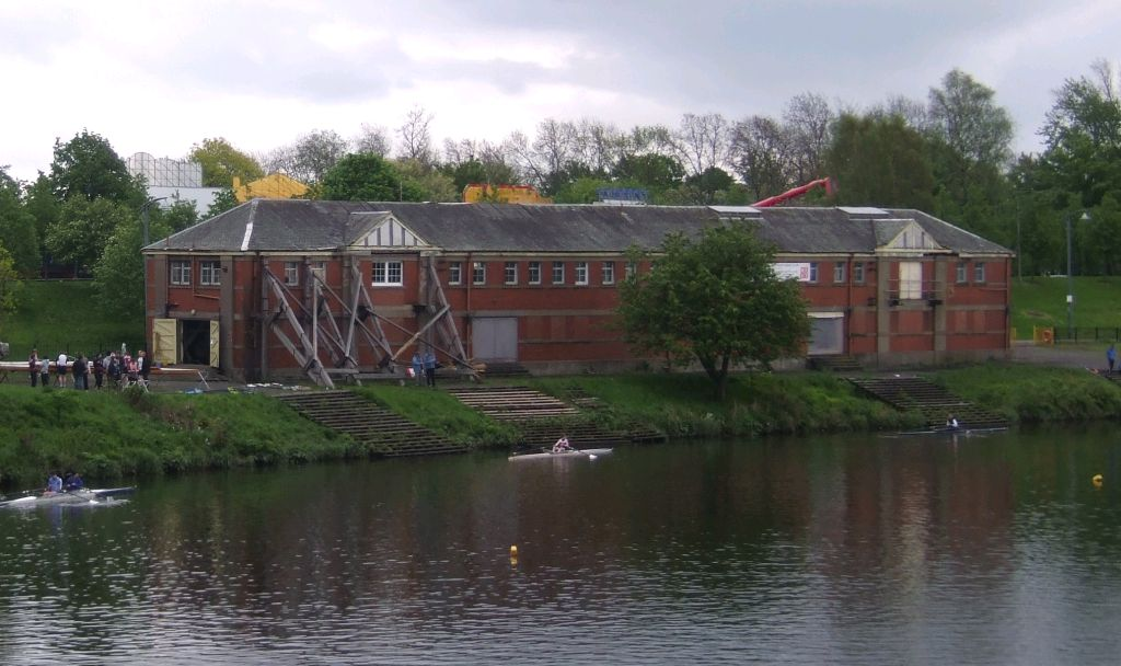 A picture of the East-boathouse on Glasgow Green, containing Glasgow Schools Rowing Cub and Glasgow University Boat Club